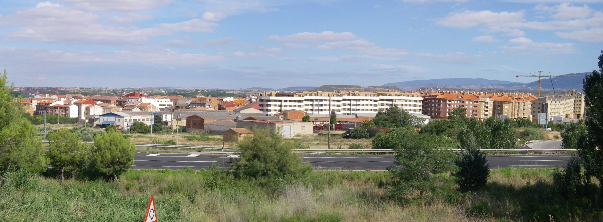 Panoramic view of Lardero (La Rioja, Spain)